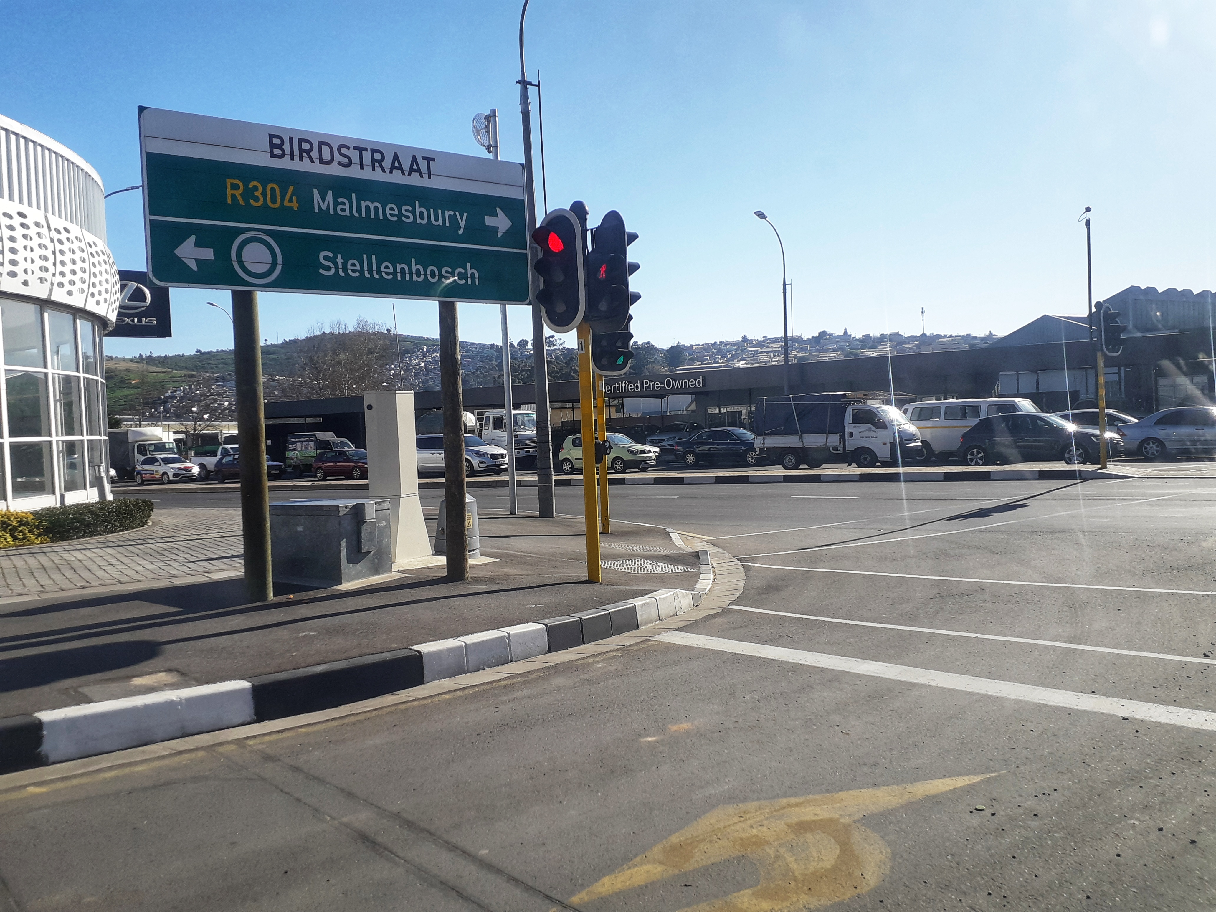 An image of a board sign indicating the directions to Stellenbosch Central and Malmesbury.